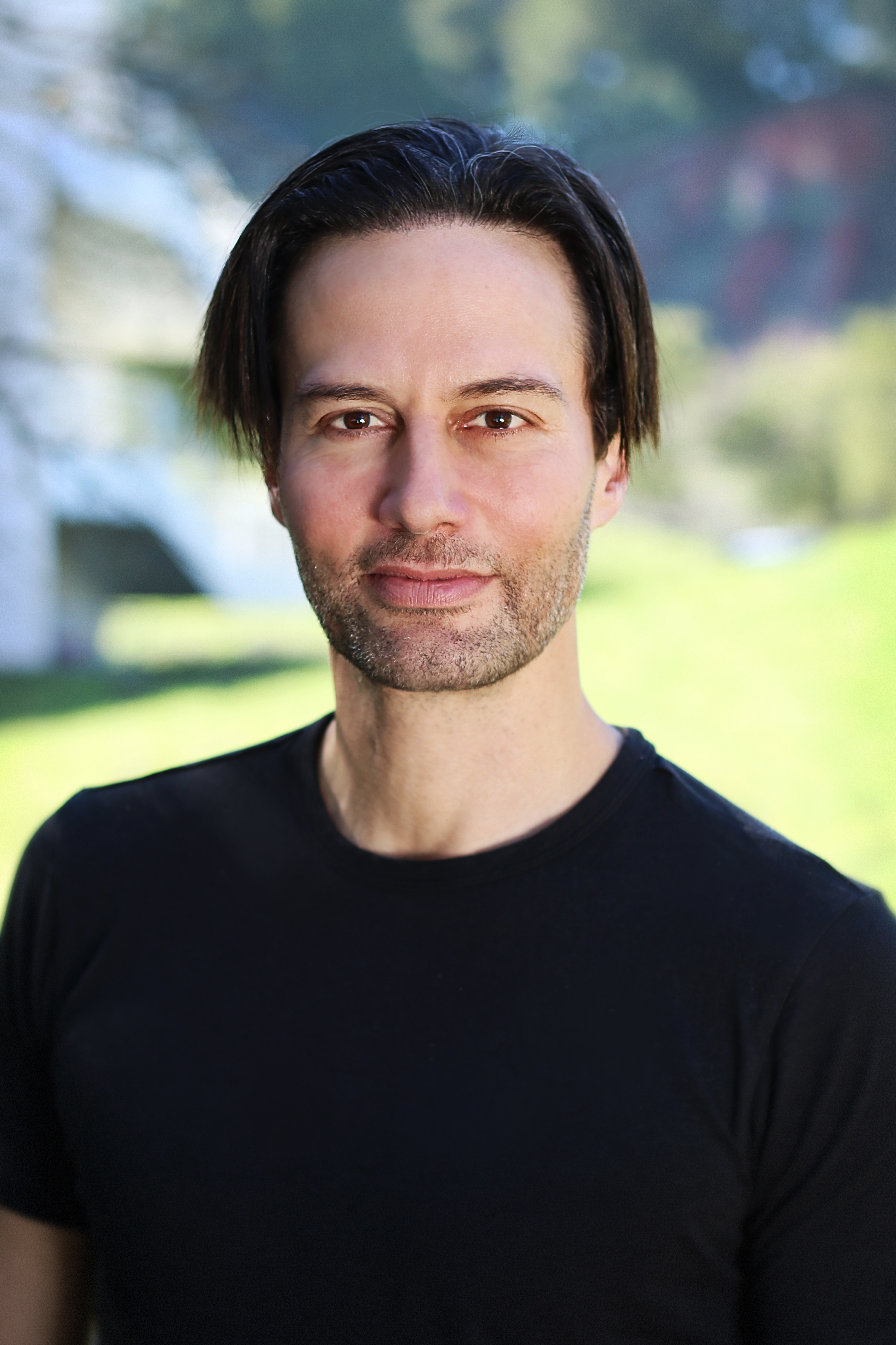 Nathaniel David